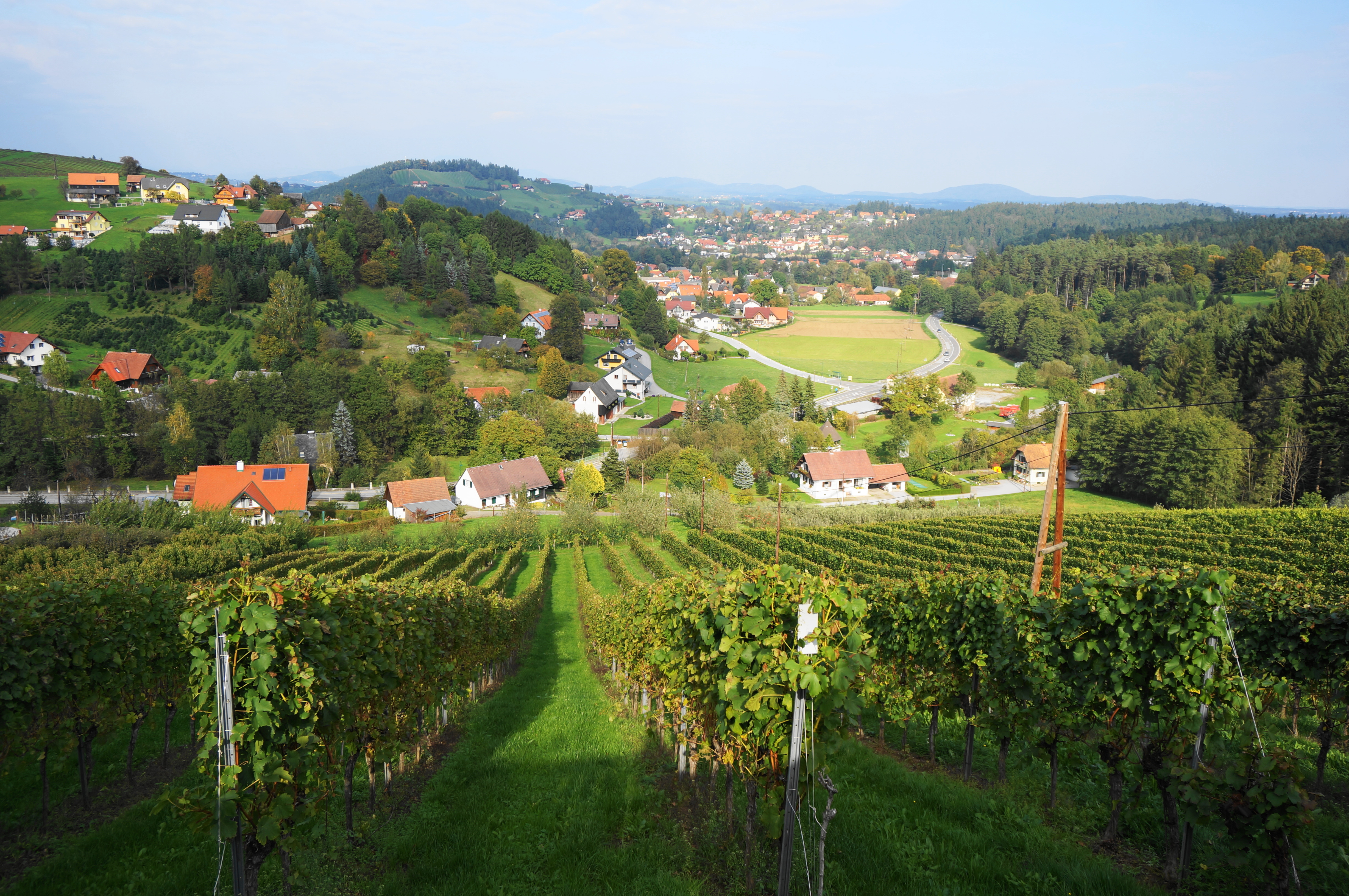 Panoramic view municipality Ligist, Schilcher vineyards in the district Voitsberg, West Styria, Austria, European Union